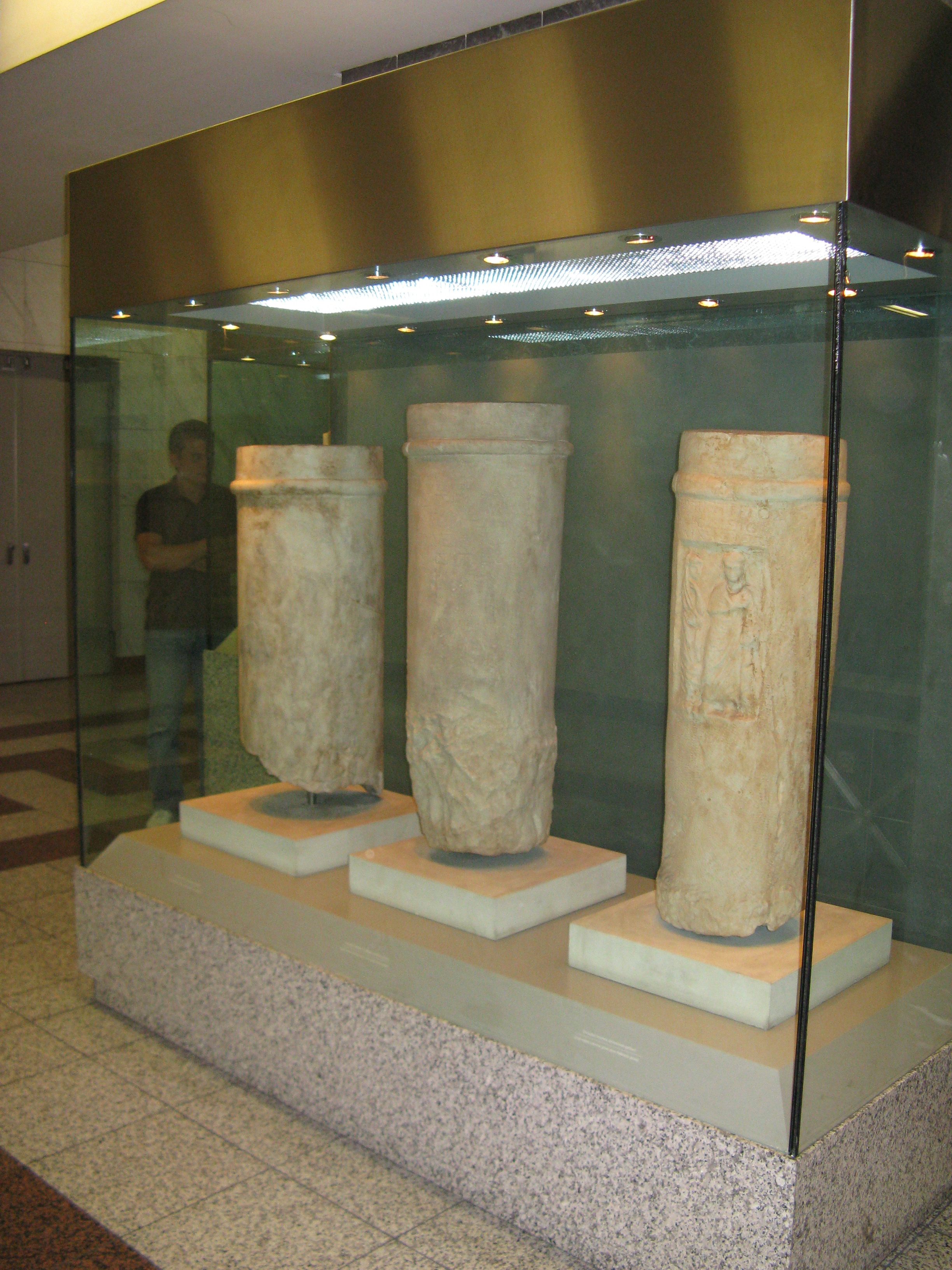 Syntagma station, Athens metro